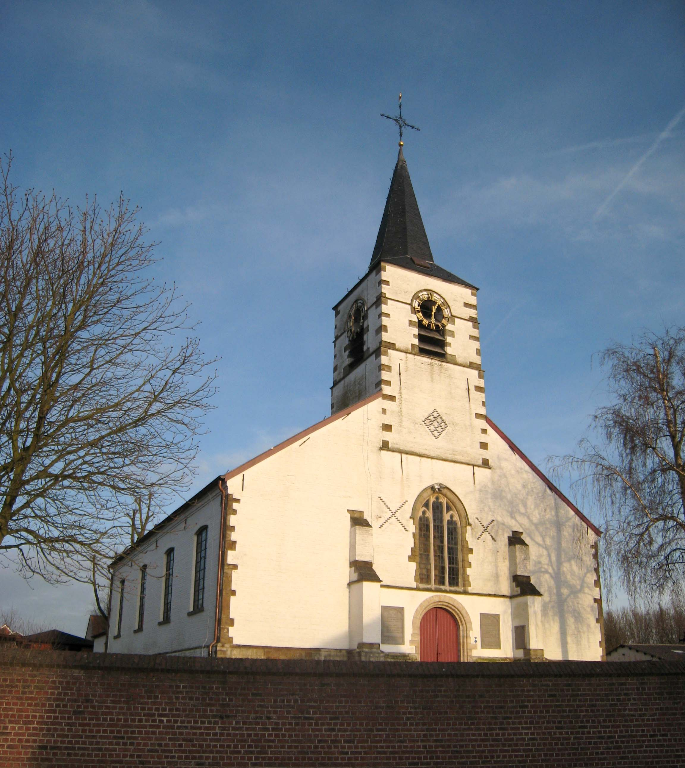 Church in Nederhasselt, Ninove, Belgium